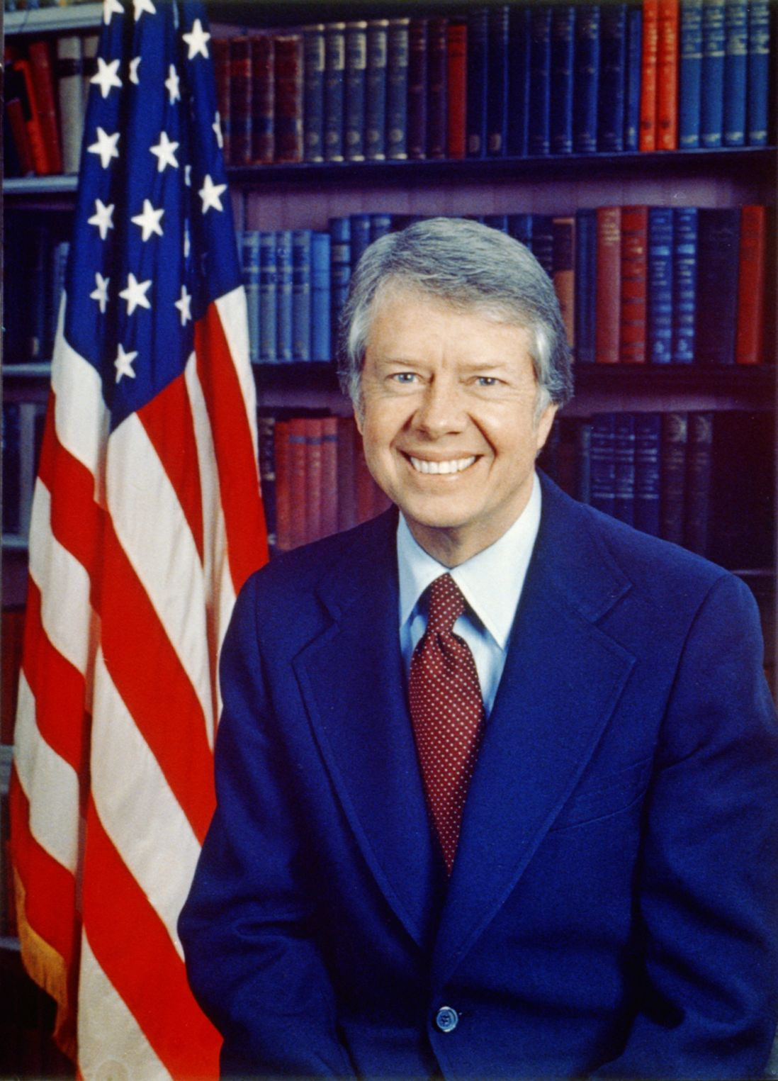 Jimmy Carter, former President of the United States